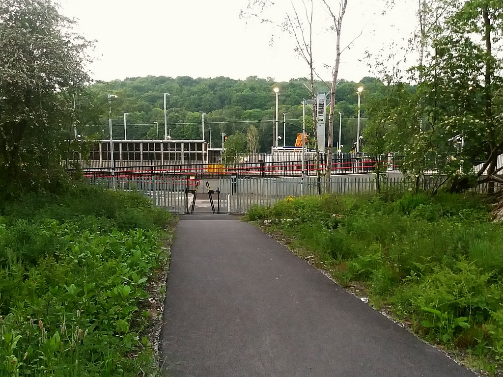 New path to a new station